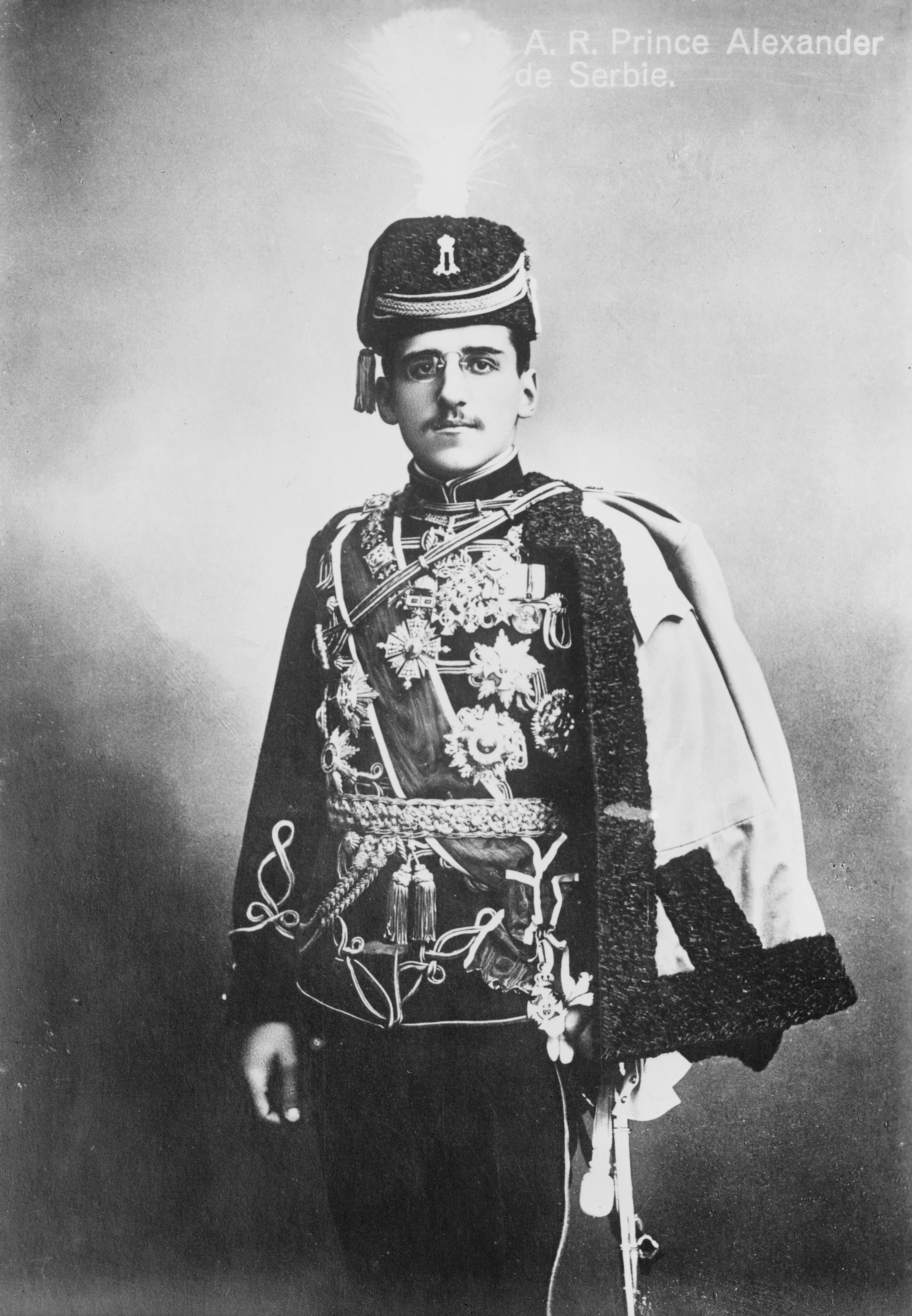 Alexander I of Yugoslavia